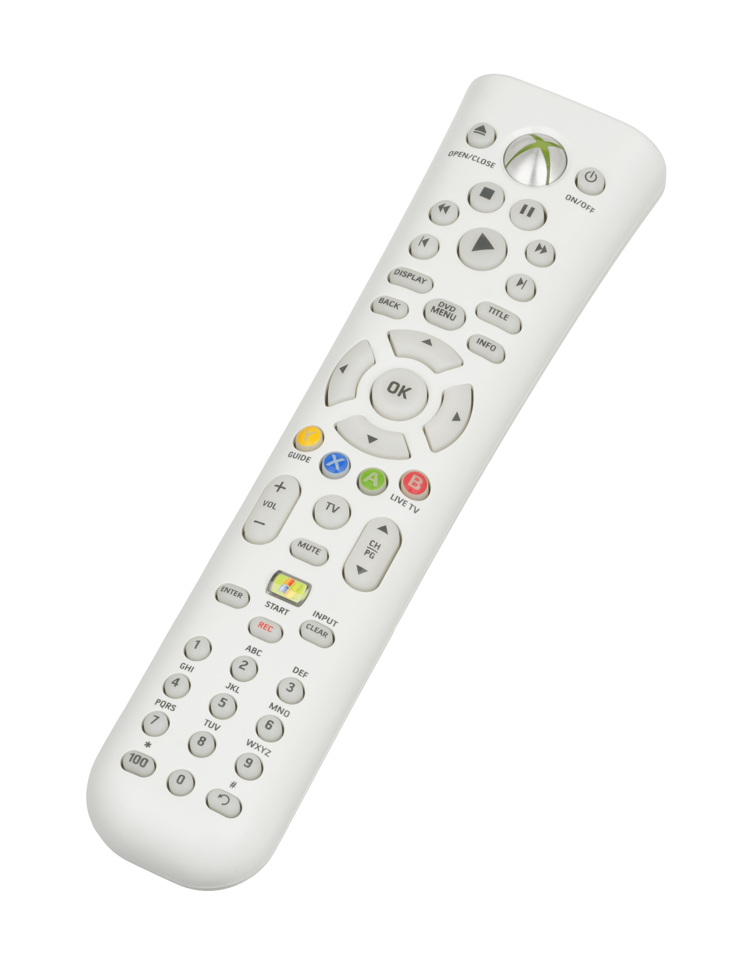 The multimedia remote for the Xbox 360 video game console. This is the second remote for the Xbox 360, the first being a shorter version that came packed with launch versions of the Xbox 360 Pro hardware. This remote was later replaced by a smaller black version to match the Xbox 360 redesign.